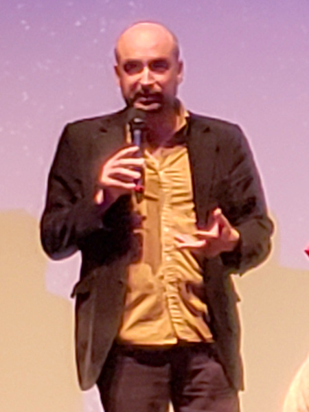 Peter Strickland presenting In Fabric at the Ryerson Theatre in Toronto, Ontario, Canada